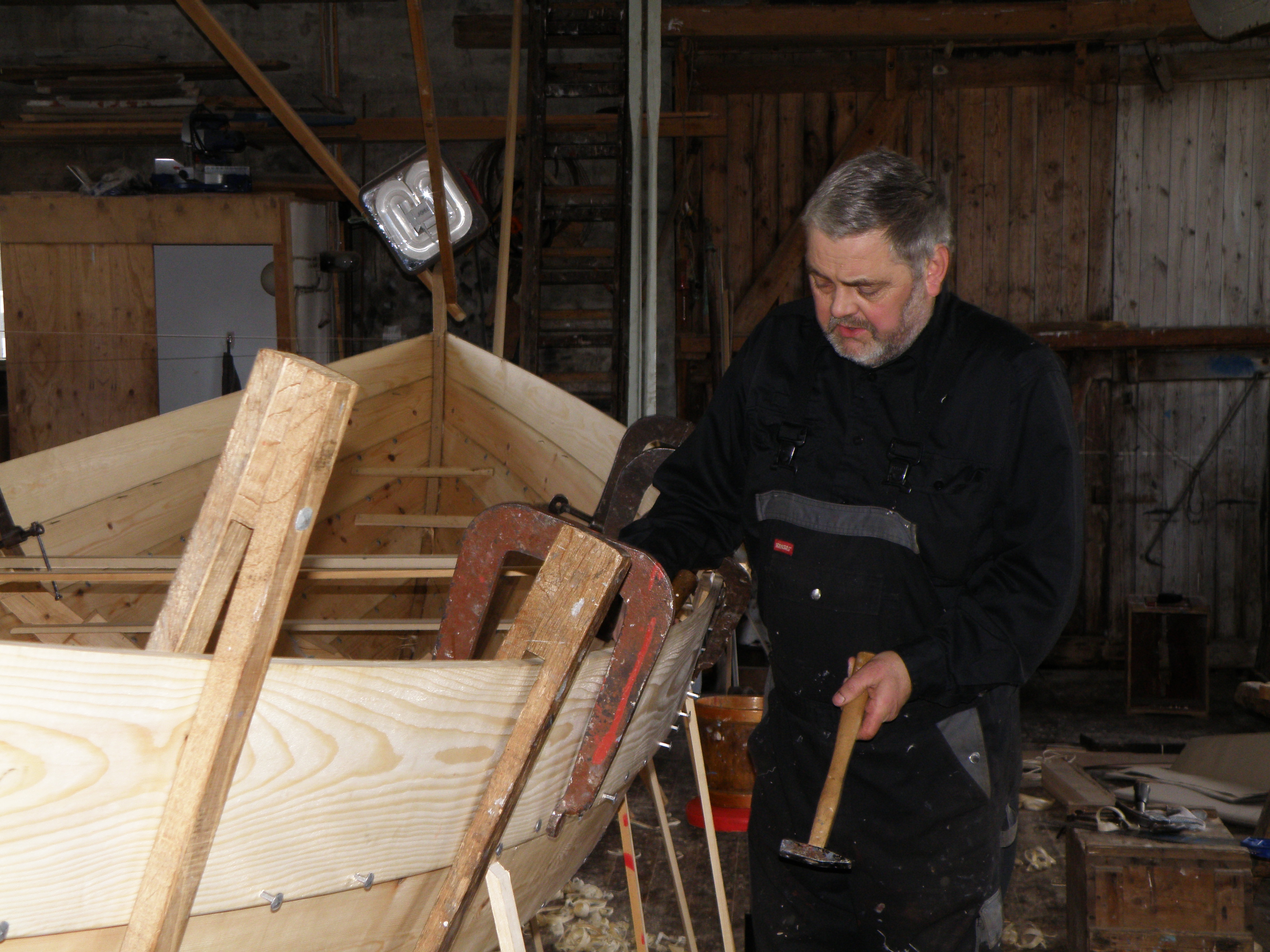 Johan Olsen is one of the few remaing boat builders in the Faroe Islands. His father and his grandfather were also boat builders. On this photo he is building a traditional Faroese wooden row boat, the size of the boat is 20 feet long. Johan Olsen has his work shop in the easthern part of Tvøroyri, which is one of the larger villages on Suðuroy, Faroe Islands. He is also a fisherman. One the boats which Johan Olsen has built is Naddoddur.